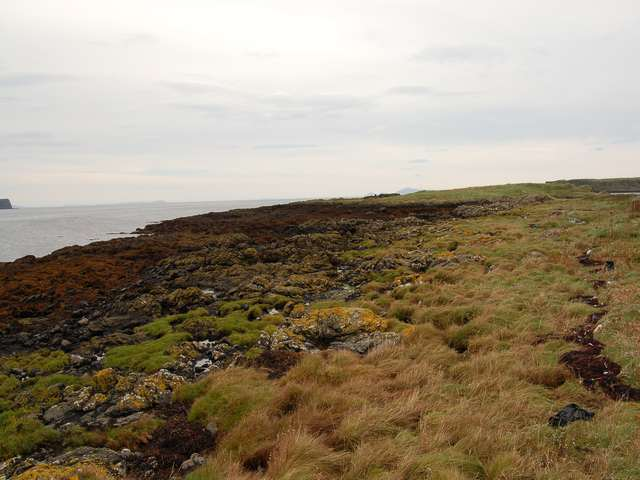 Lampay. The northwest shore of the tidal island of Lampay in Loch Dunvegan.